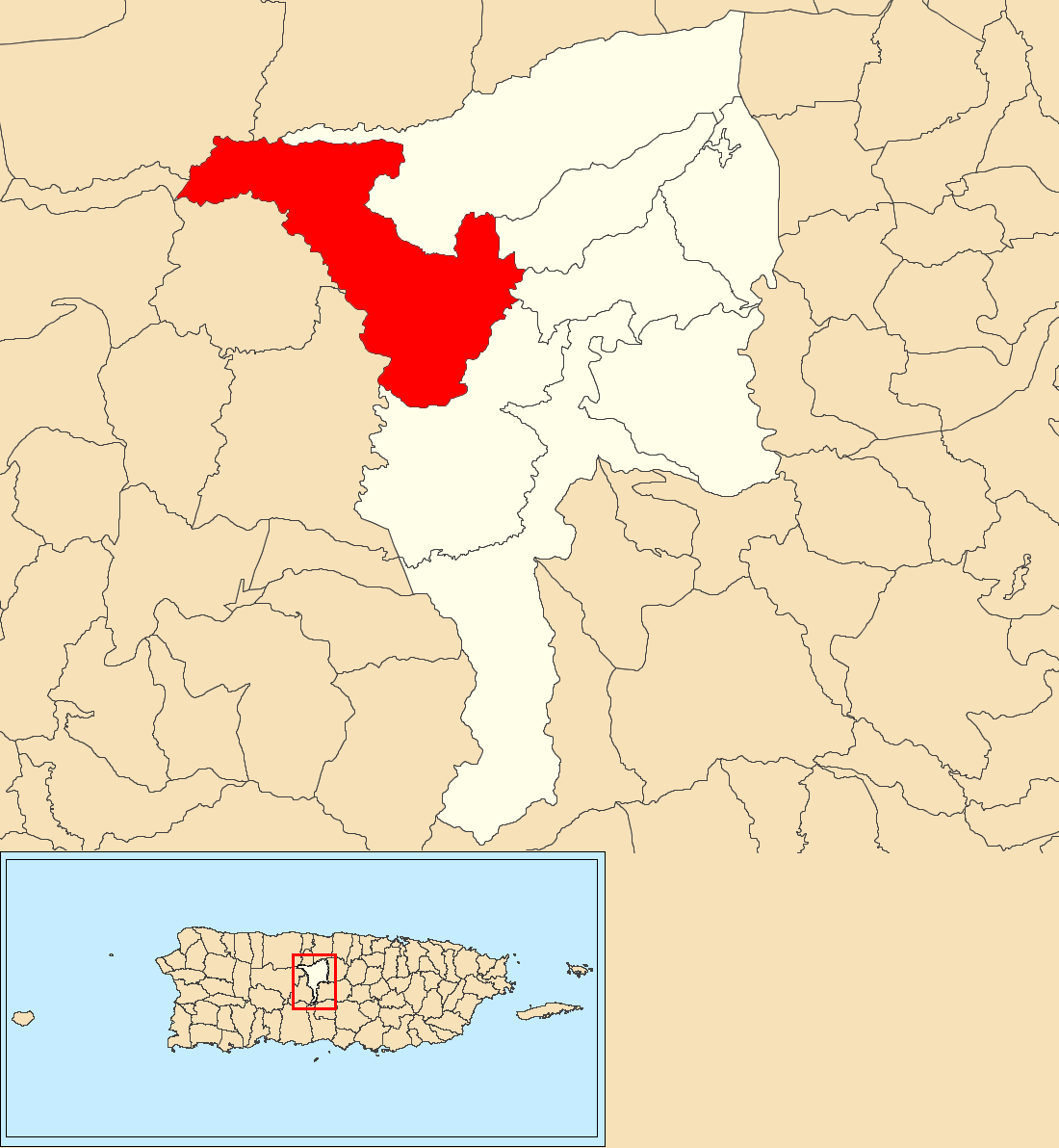 Frontón, Ciales, Puerto Rico locator map